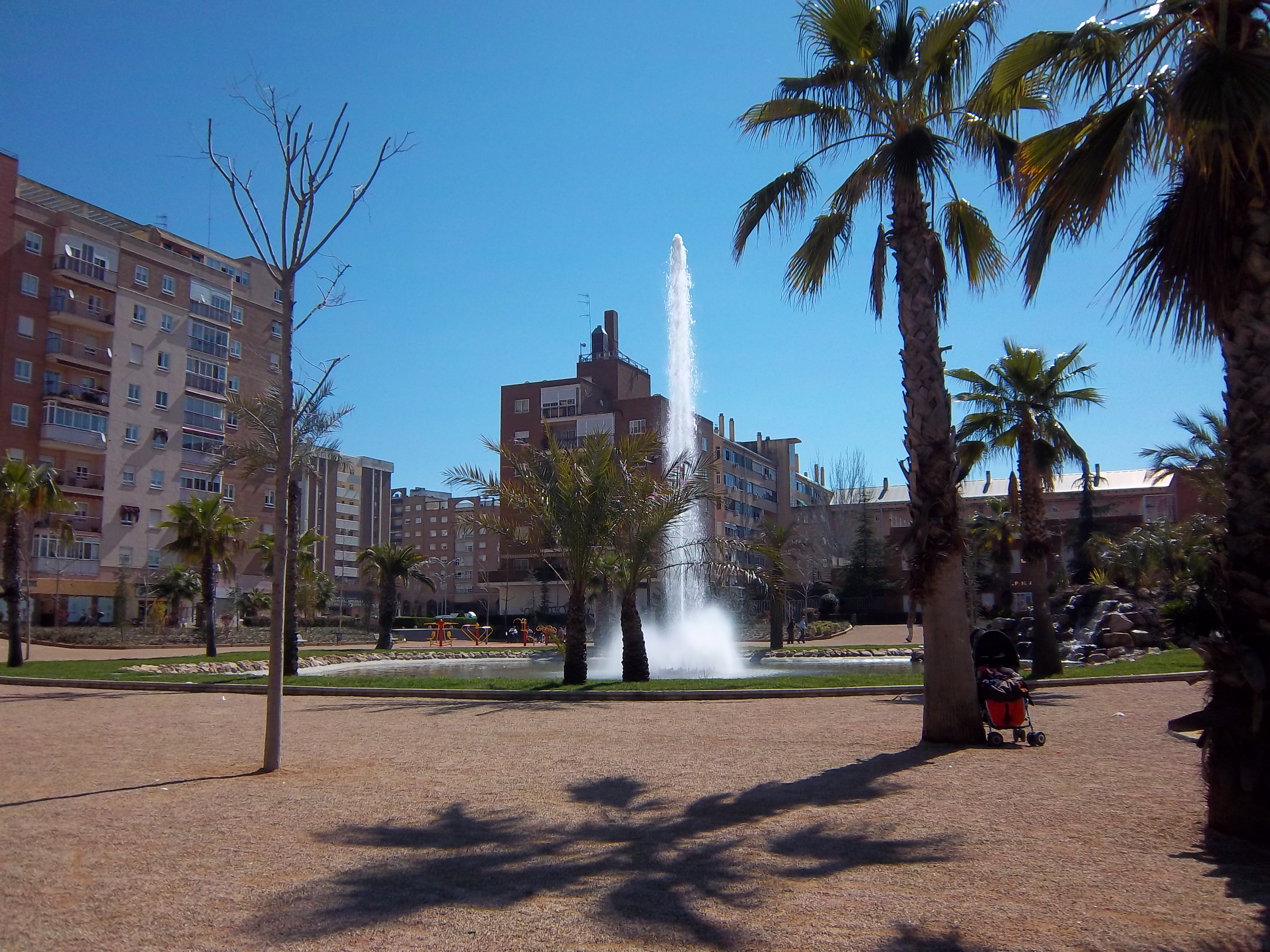 This is a picture of Bioclimático Park, in the city of Badajoz (Spain).